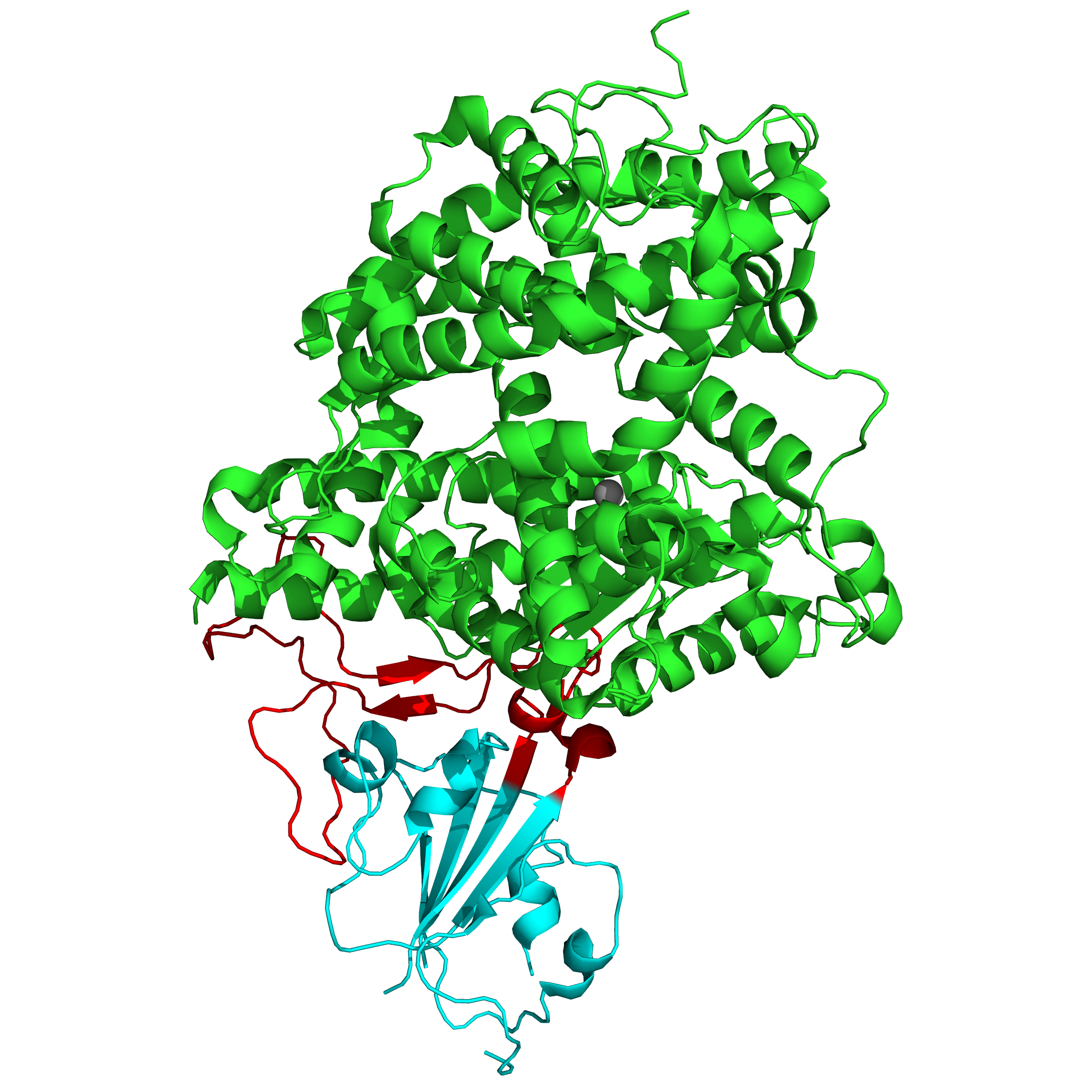 Structure of SARS coronavirus spike receptor-binding domain (cyan) complexed with its receptor ACE2 (green), after PDB: 2AJF​.